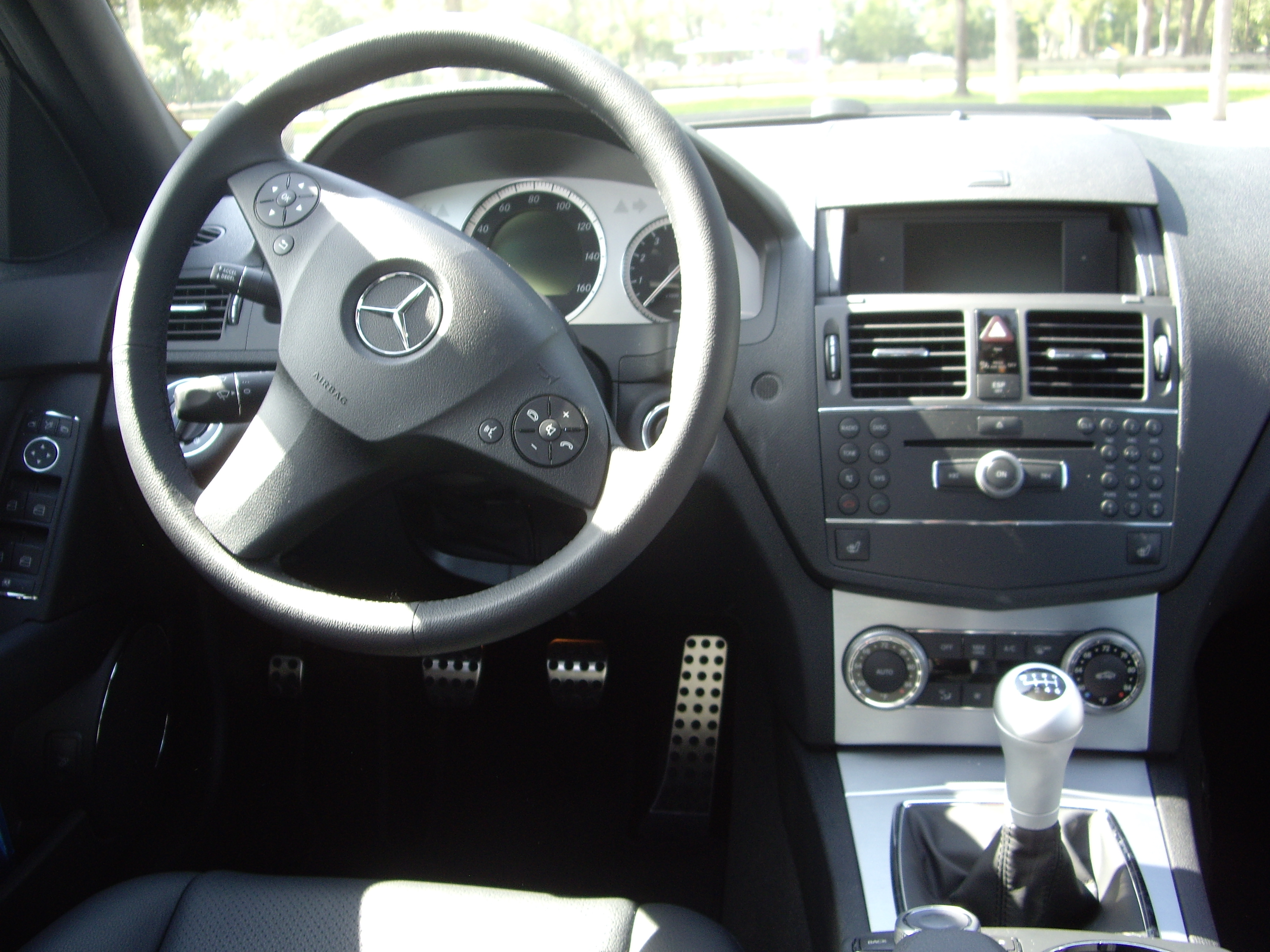 2007 Mercedes-Benz C300 Avantgarde (W204) interior